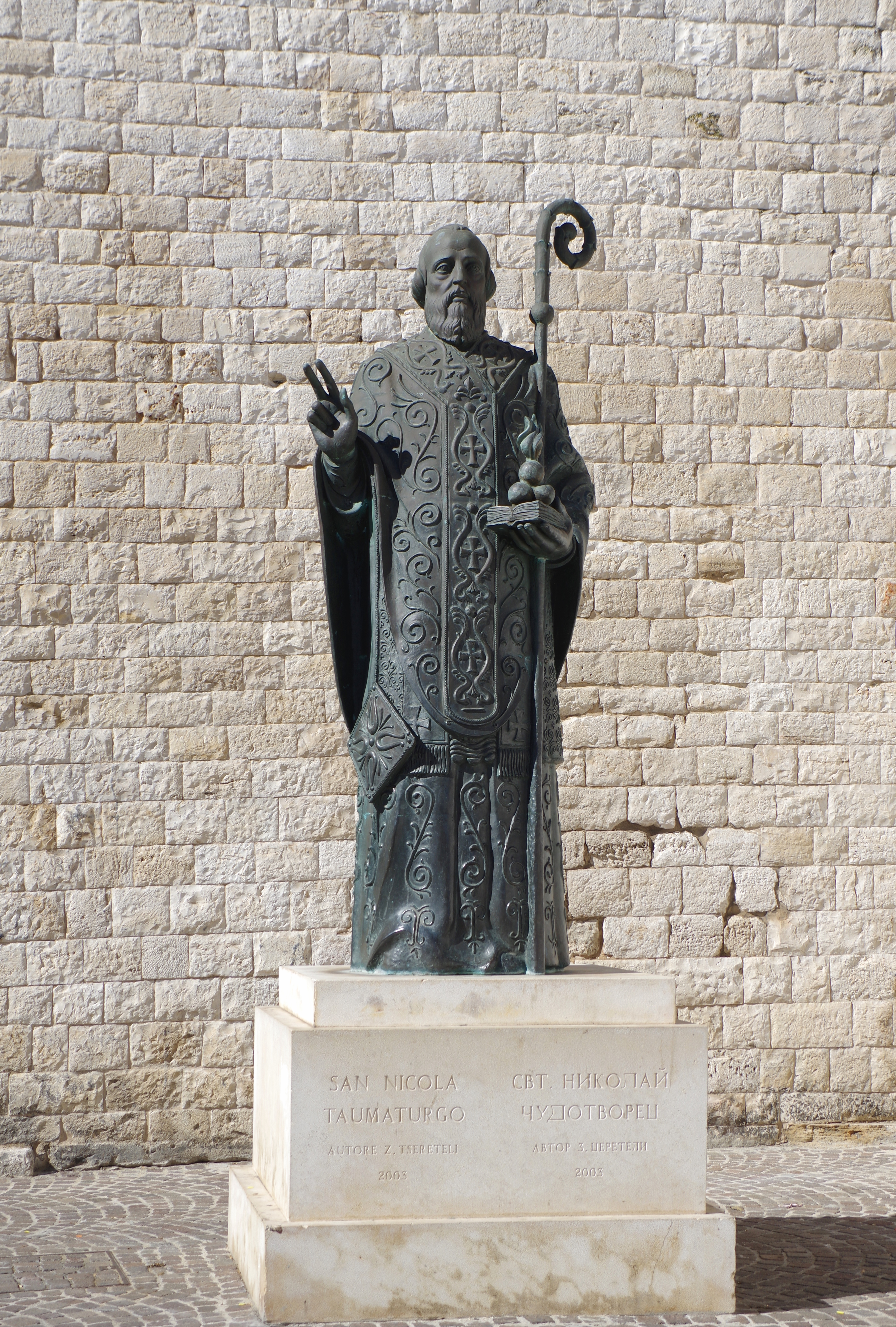 Italy, Bari, San Nicola statue